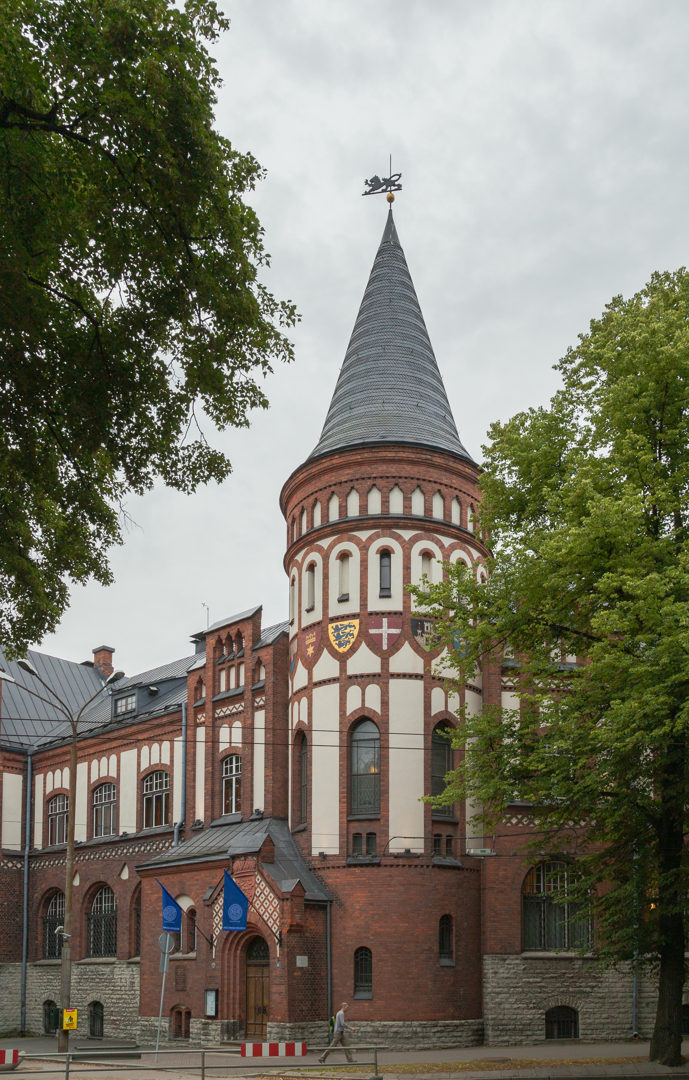 Museum of the Bank of Estonia, Tallinn, Estonia